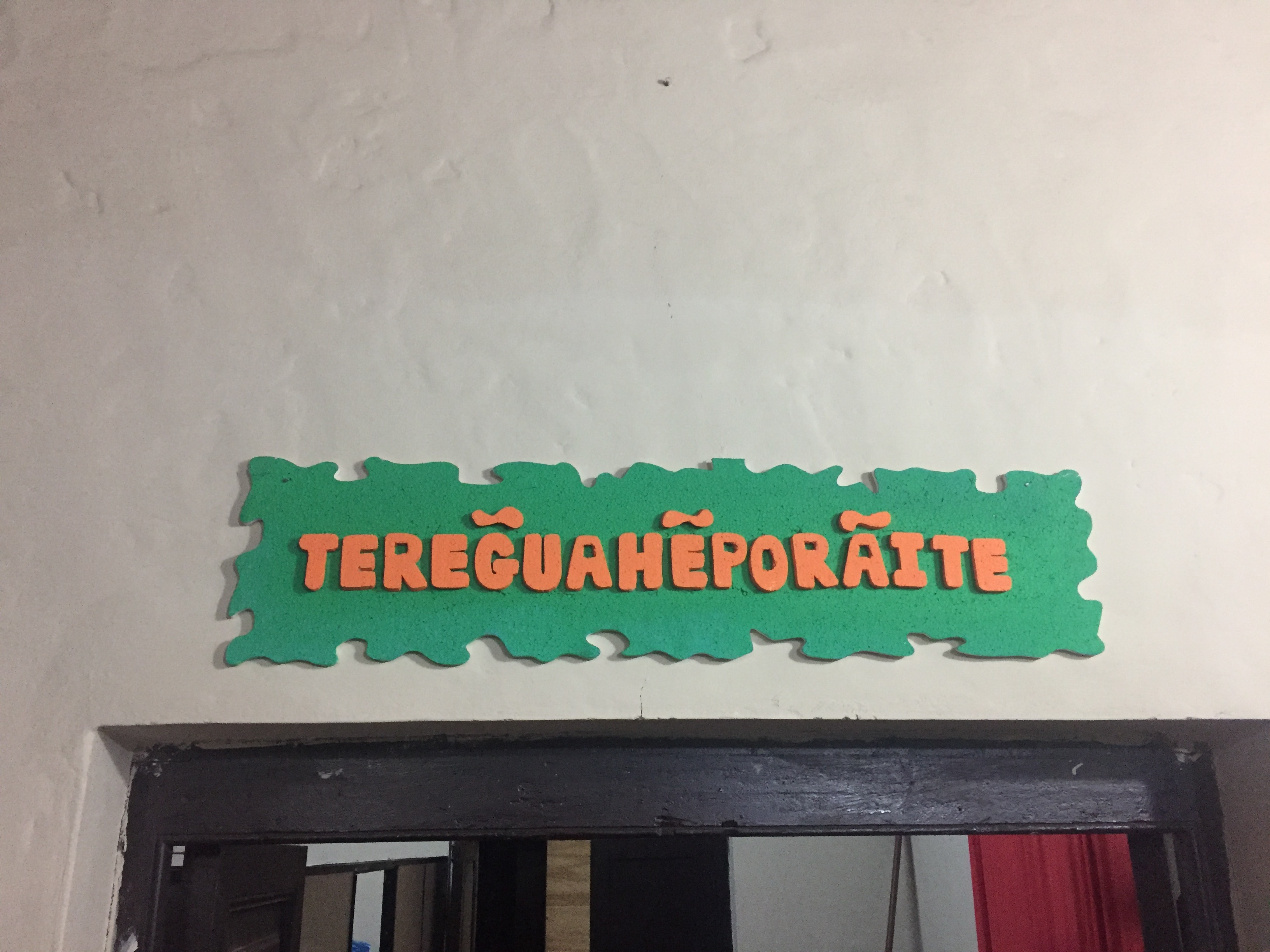 Welcome sign in Guarani language in the interior of the Yvy Marãe’ỹ Foundation in San Lorenzo, Paraguay.